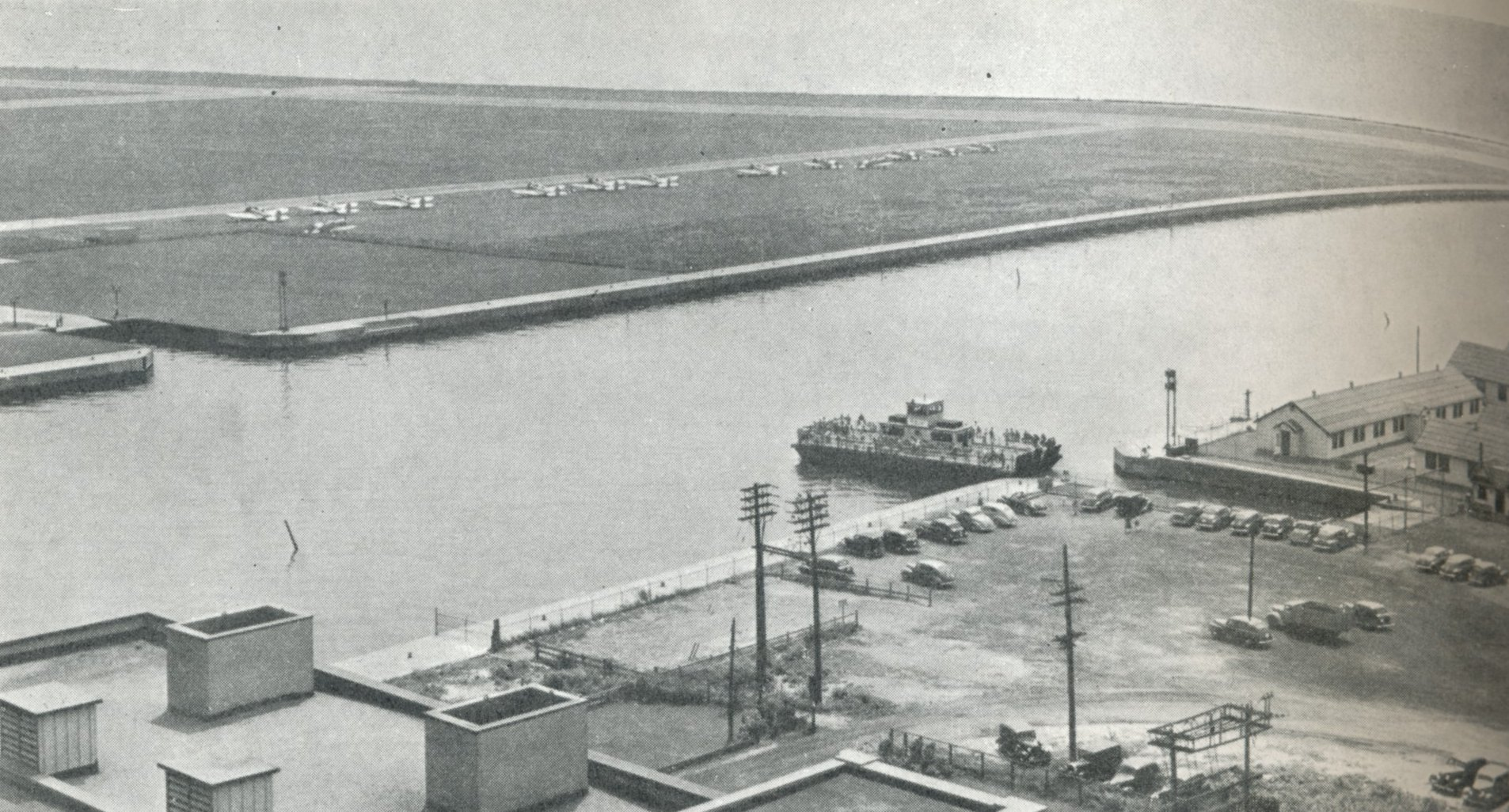 Island Airport was a ferry ride away from the camp at Little Norway. (Sometime between 1940-1943). Toronto, Ontario, Canada.